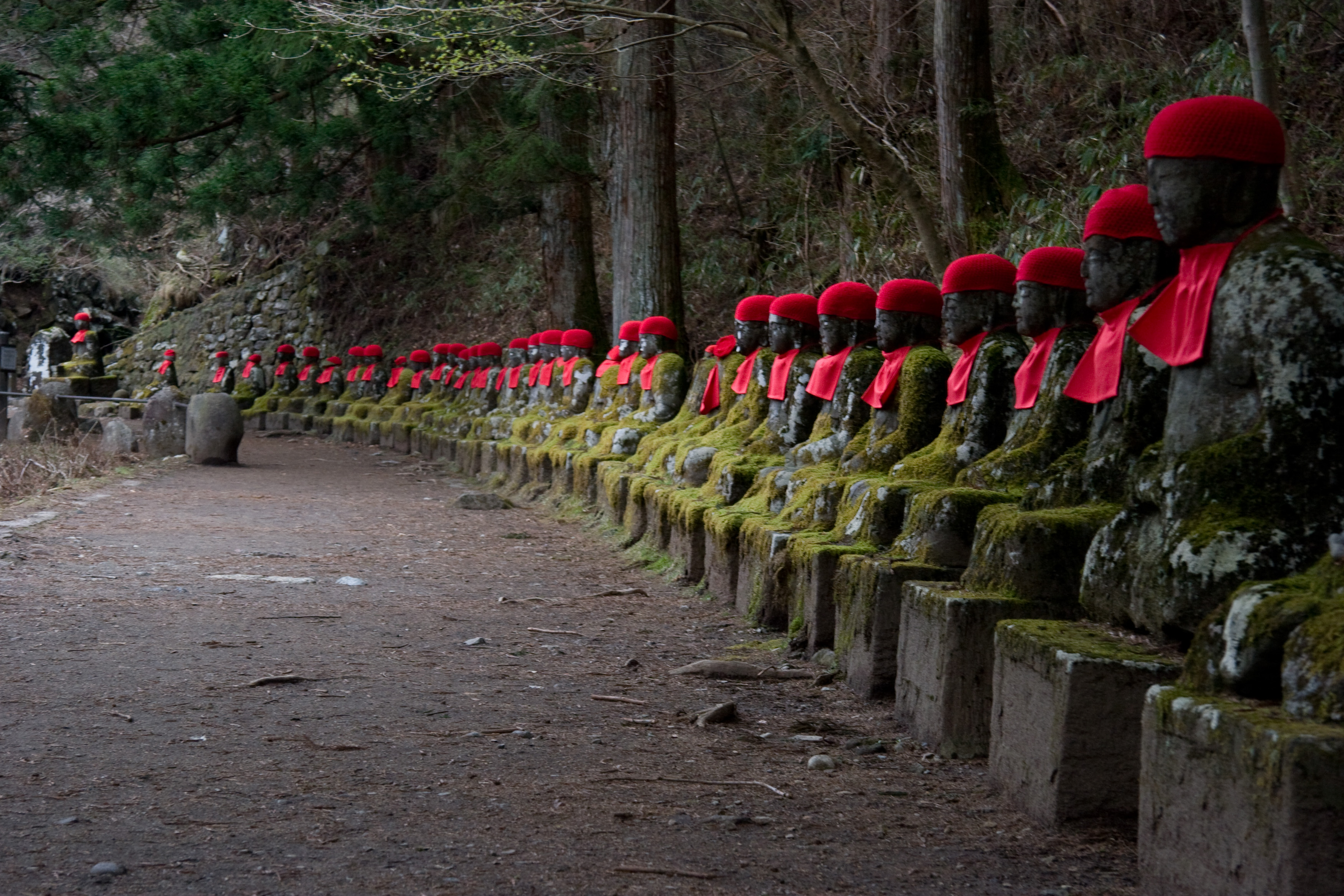 Jizo alley, Kanmangafuchi abyss, Nikko